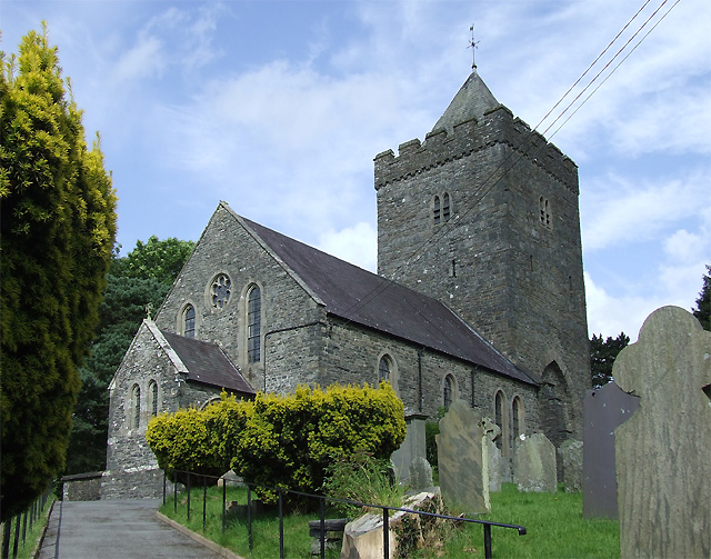 Eglwys Dewi Sant, Llanddewi-Brefi, Ceredigion.The church has a particularly fine twelfth century Norman Tower. Much of the rest of the church had to be rebuilt in Victorian times.